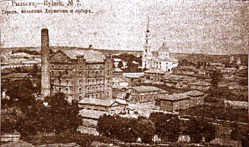 Derugin Mill in Rylsk, Russia.